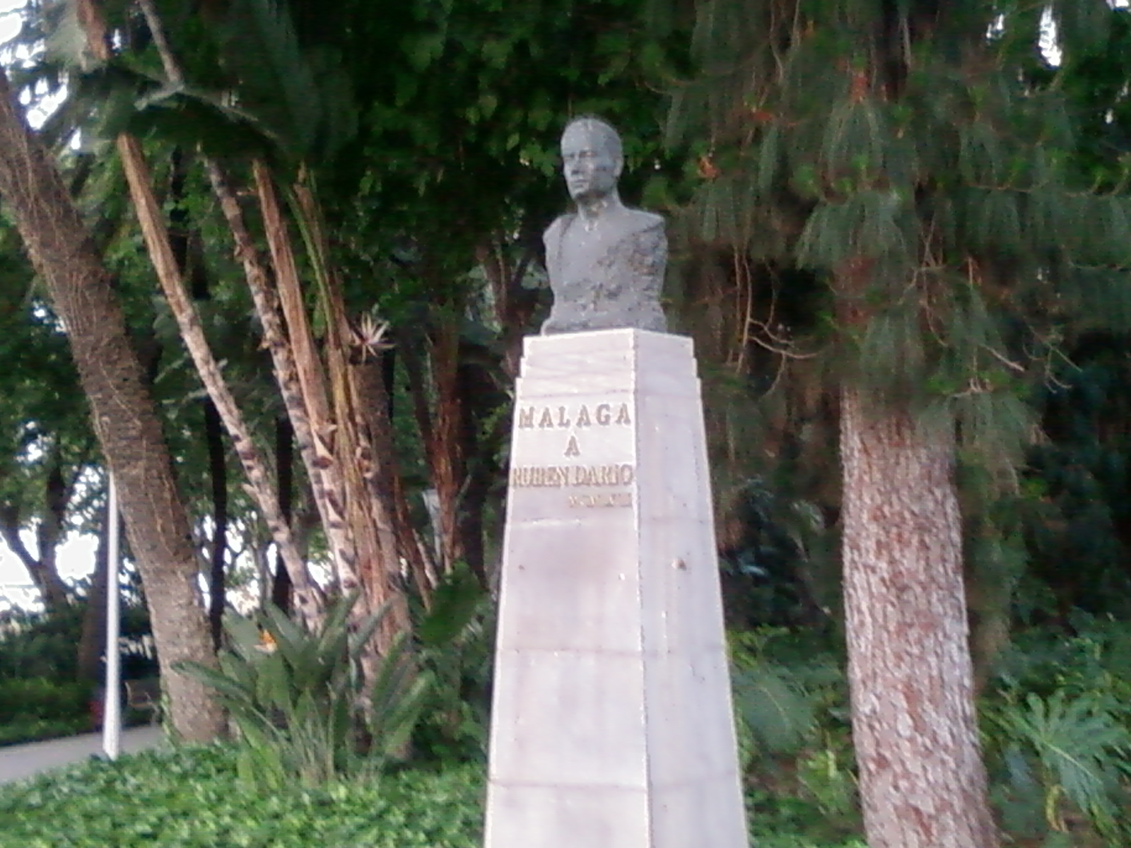 Monument to the poet Rubén Darío at Málaga Park, Spain